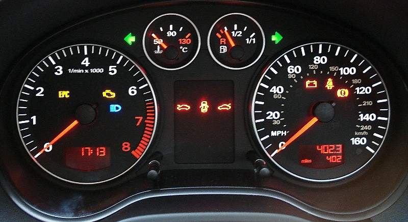 Instrument cluster of a 2007 Audi A3 (Type 8P)